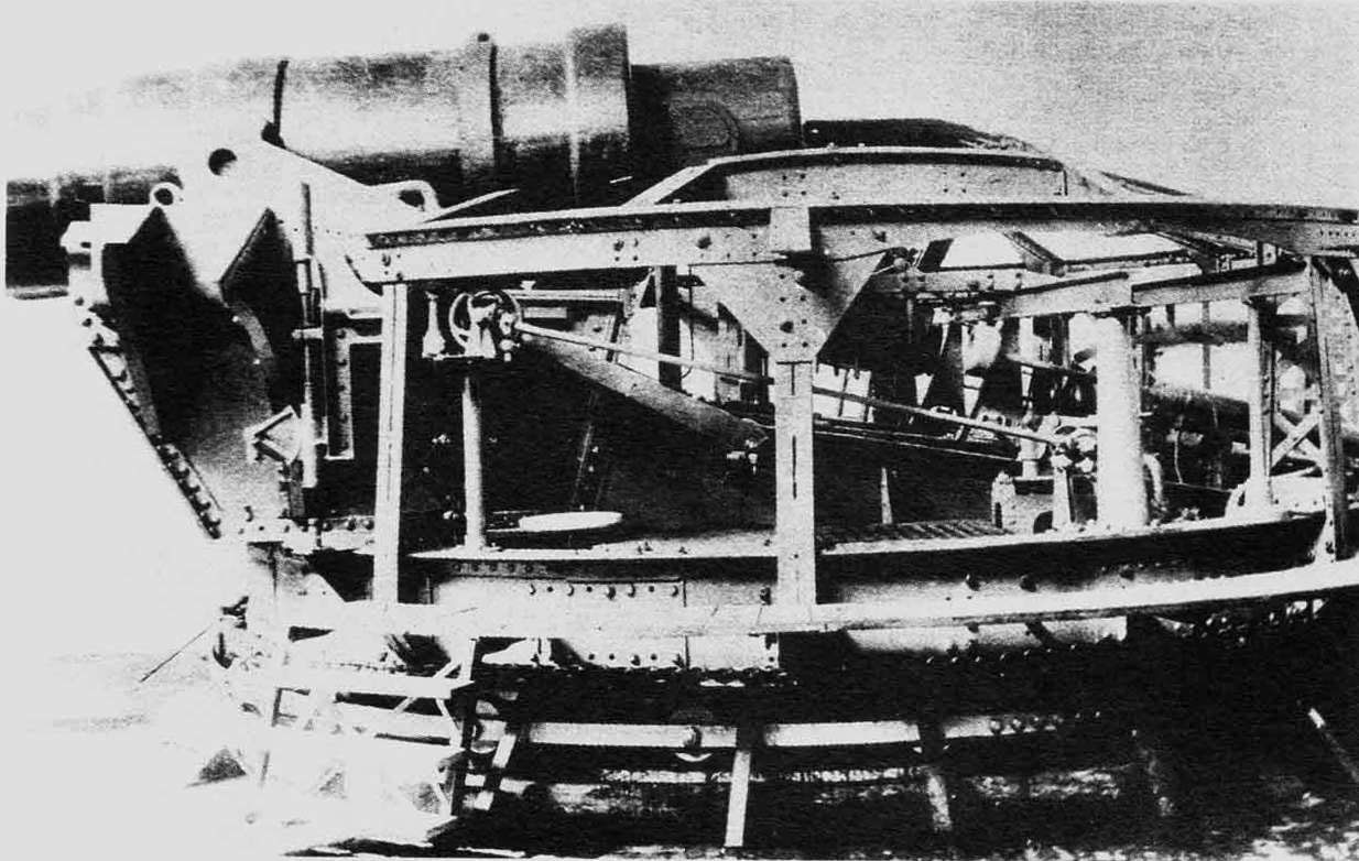 A turret of the Imperial Russian battleship Sinop.